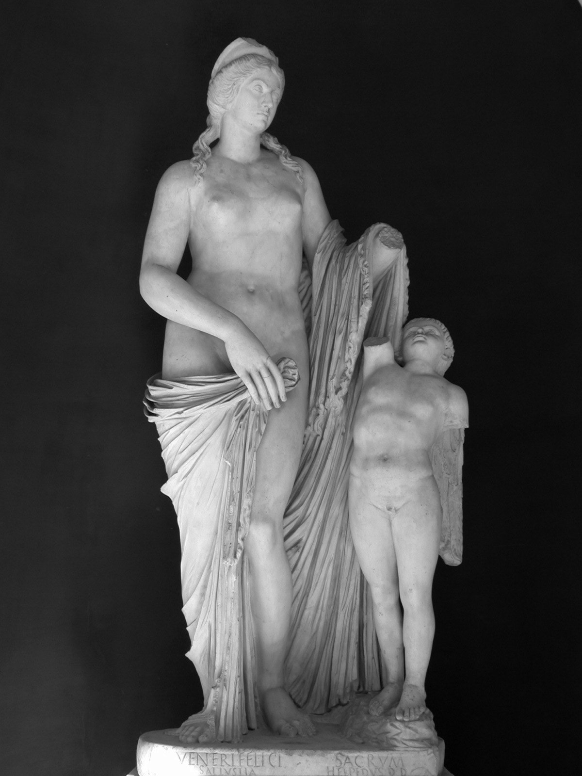 Venus and Amor, Vatican Museums, Rome